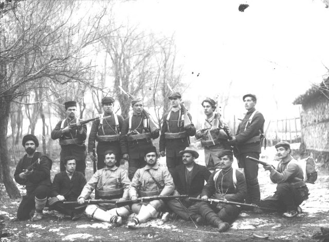 Simeon Molerov cheta